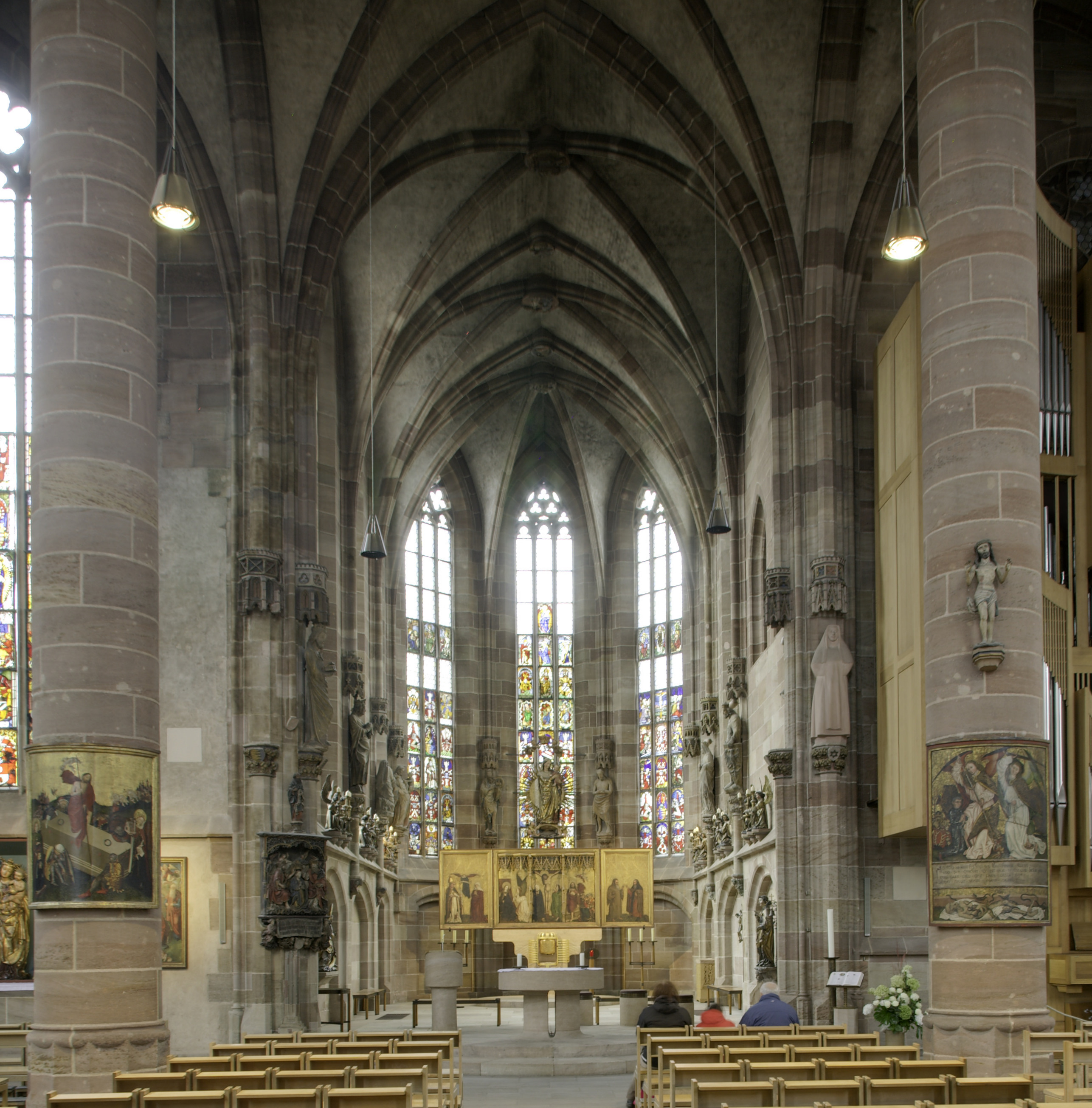 Frauenkirche Nuremberg